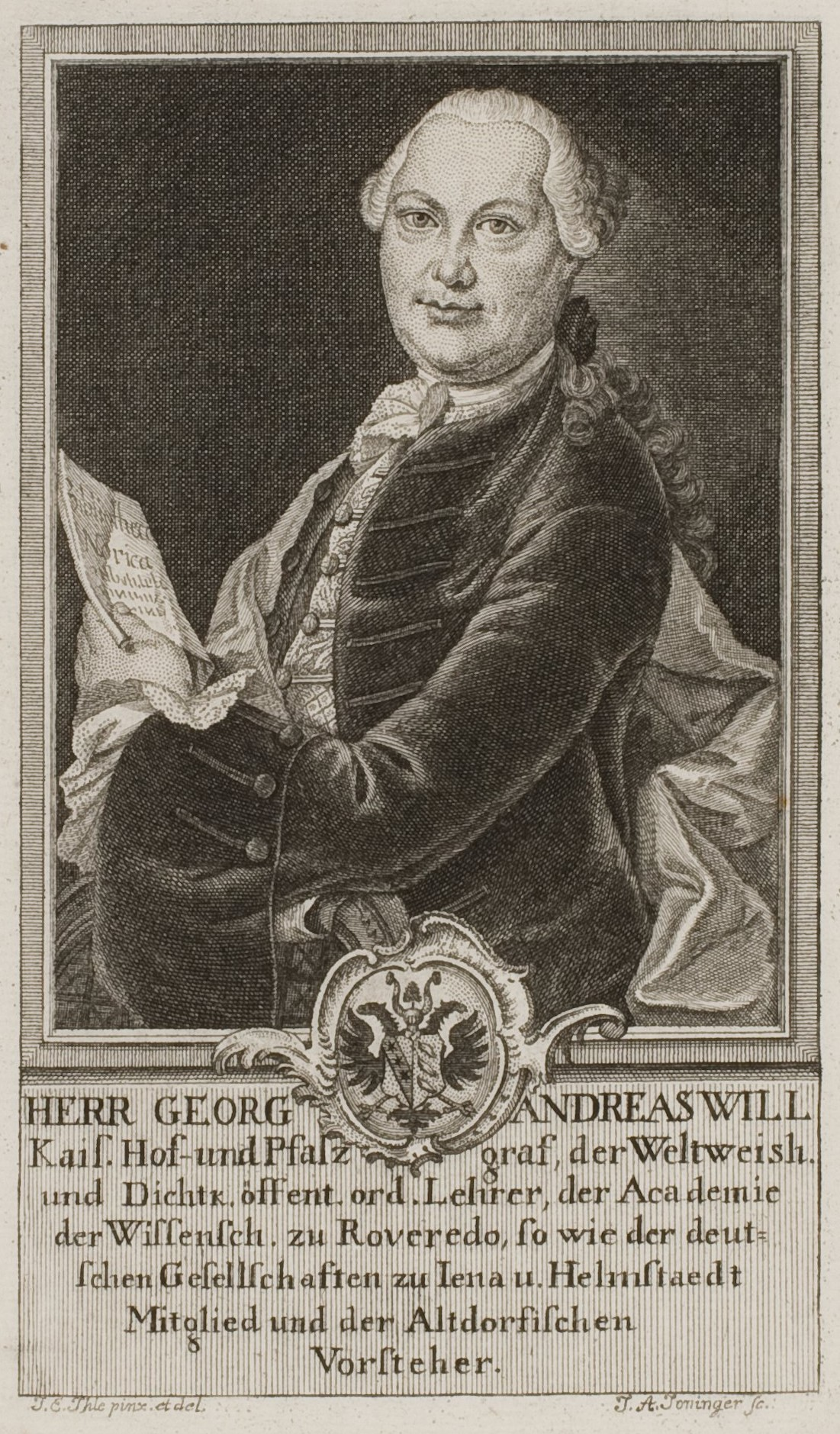 Georg Andreas Will (1727–1798)